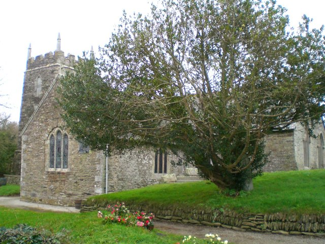 Ruan Lanhorne parish church, Cornwall, UK